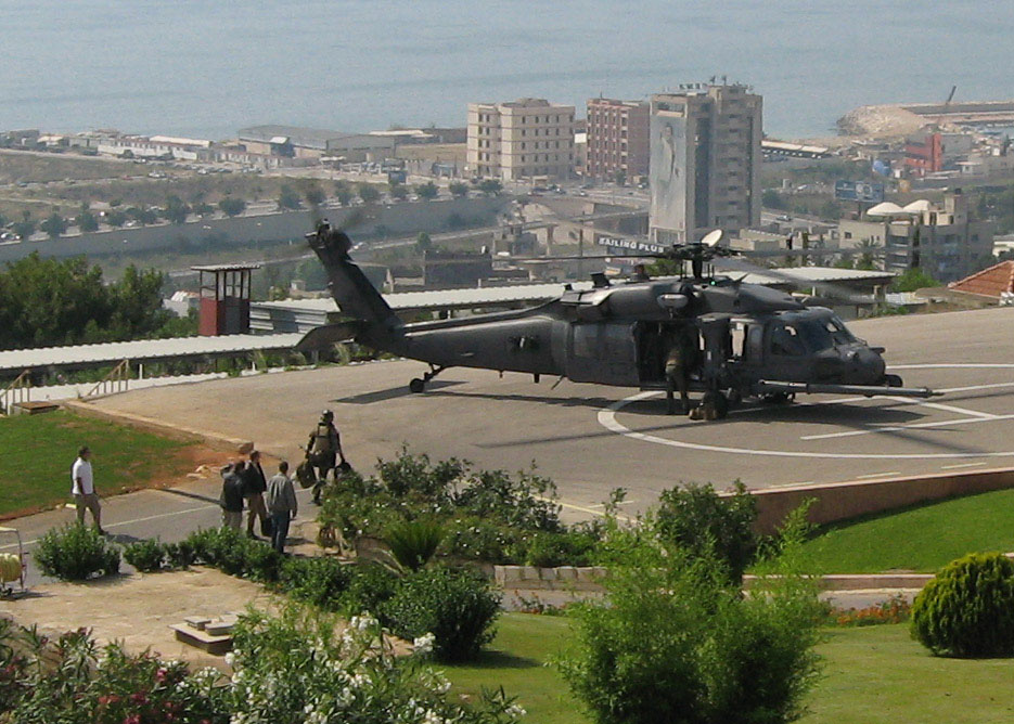 BEIRUT — U.S Air Force airmen load a U.S Air Force HH-60G Pave Hawk helicopter before take-off at the U.S. Embassy in here May 19, 2008. The Air Force's 56th Rescue Squadron and the U.S. Navy's Joint Maritime Ashore Support Team and Task Force 362 deployed to Royal Air Force Cyprus early last week to provide potential re-supply support to the U.S. Embassy in Beirut if requested.